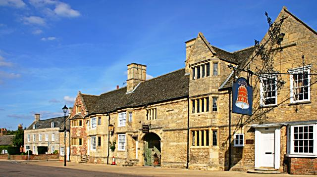 The Bell at Stilton. One of the many great coaching inns that lined the Great North Road. No longer a traveller's stopping place, as Stilton is now bypassed by the A1 motorway, leaving it a peaceful, sleepy village once again.